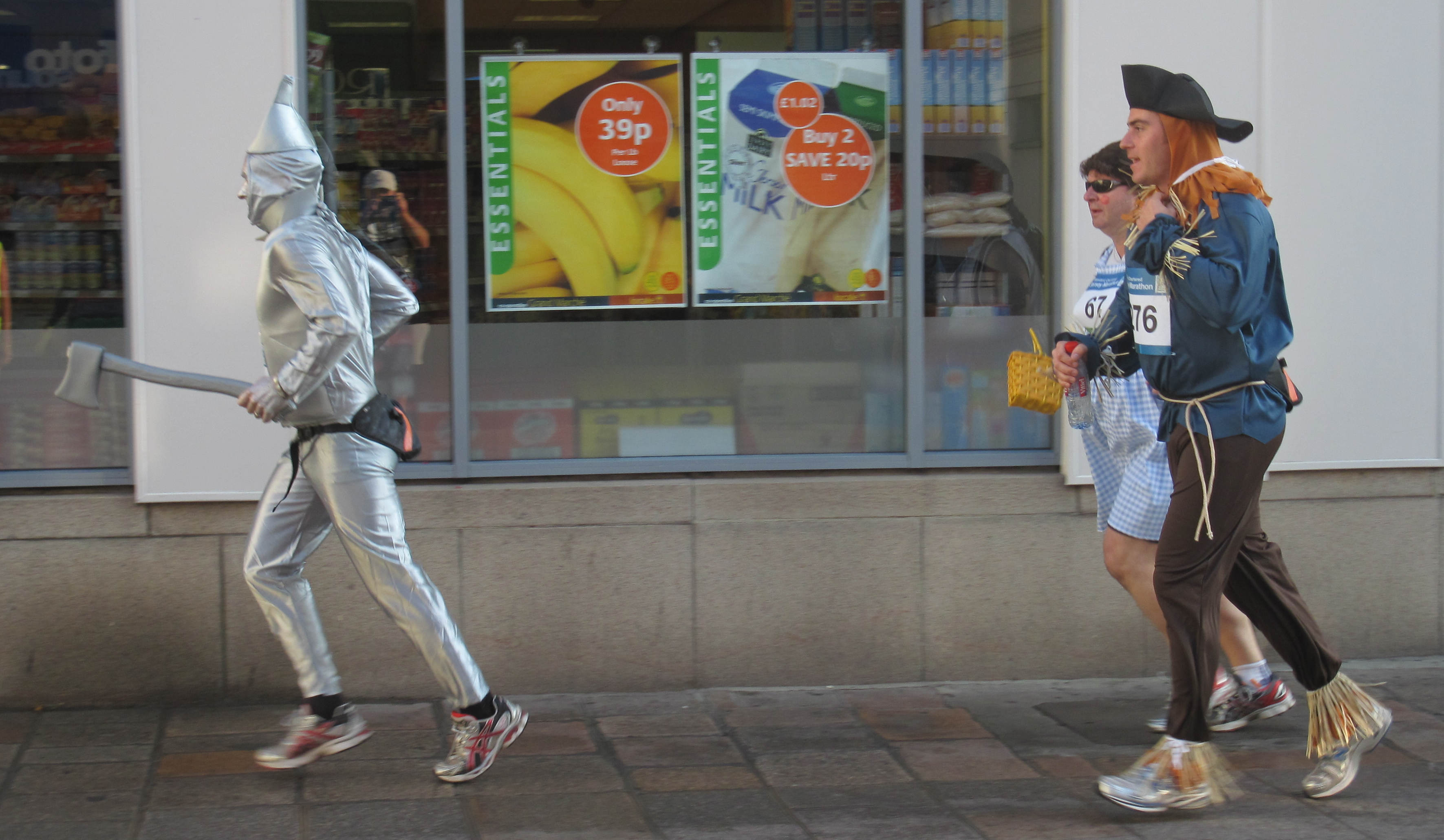 Jersey Marathon, 27 September 2009